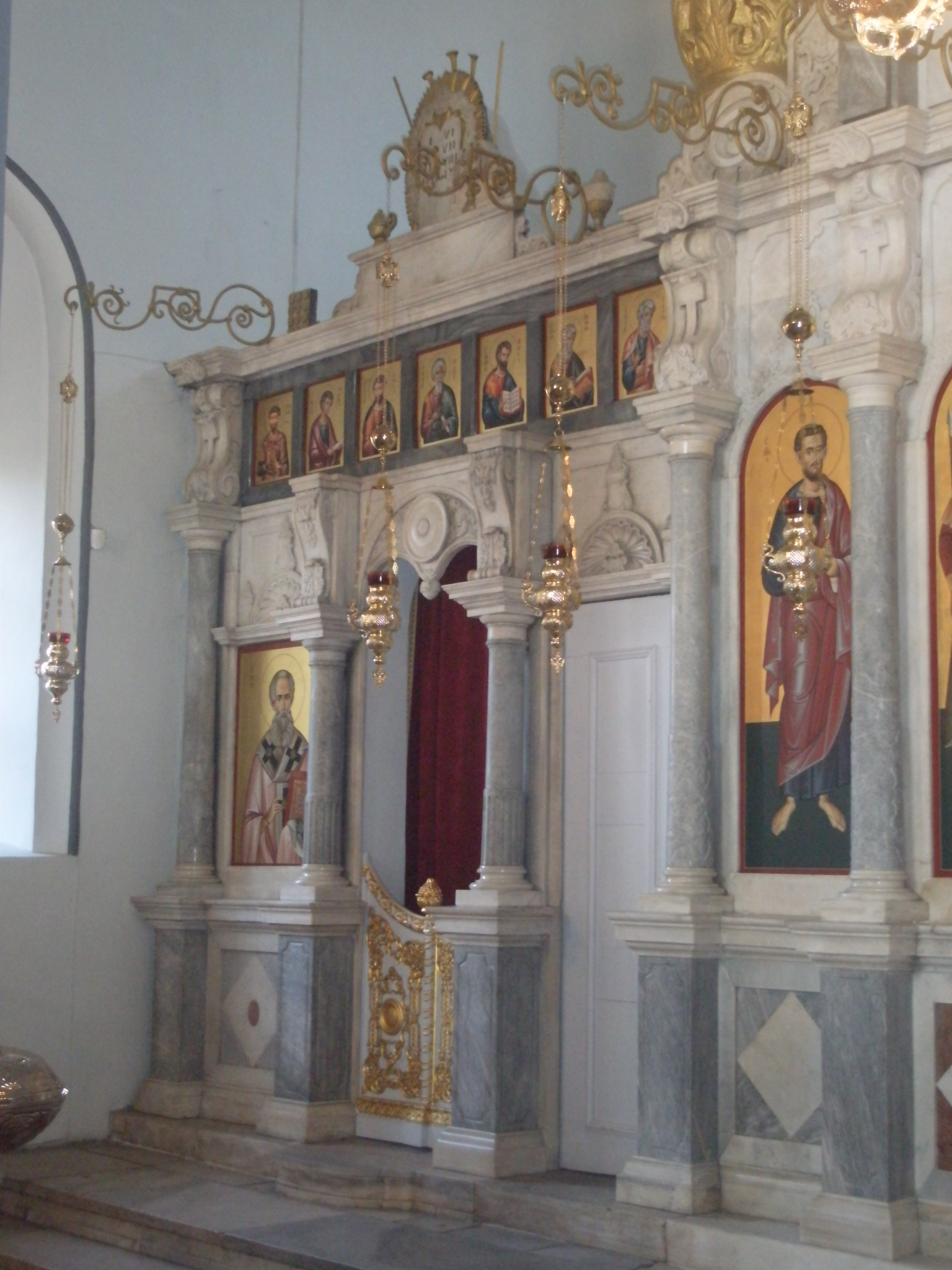 елемент от иконостасът